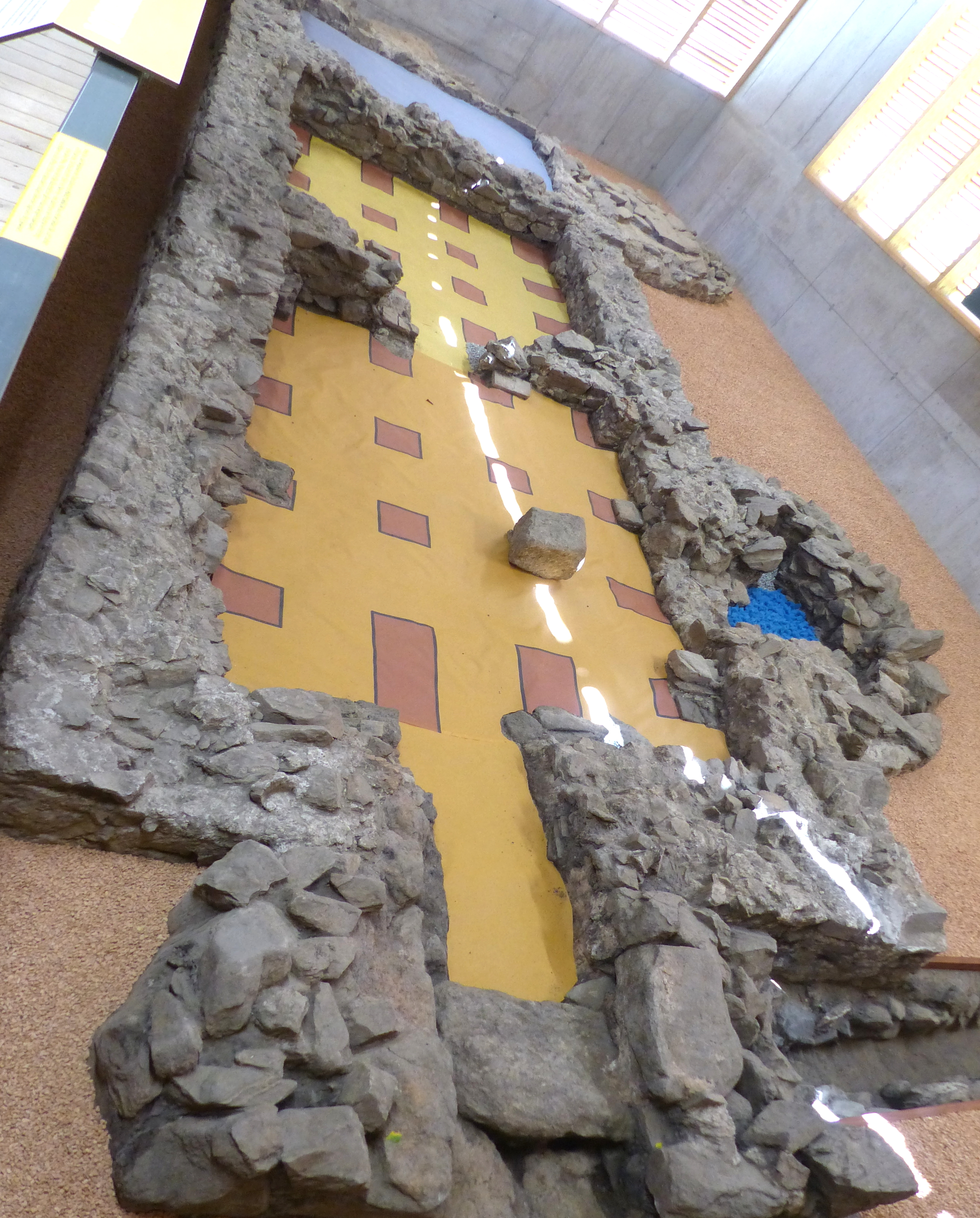 Schlögen ( Upper Austria ). Ancient Roman thermae ( 2nd century AD )